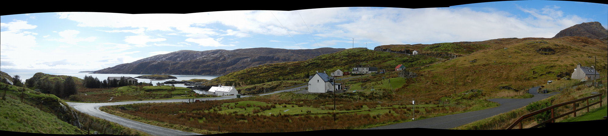 Panoramic view of all houses of the village Rèinigeadal taken from the ground of the Gatliff Trust Hostel (not pictured) there. The left side is about east. The right end showing mountain Todun (528 m) in the west.